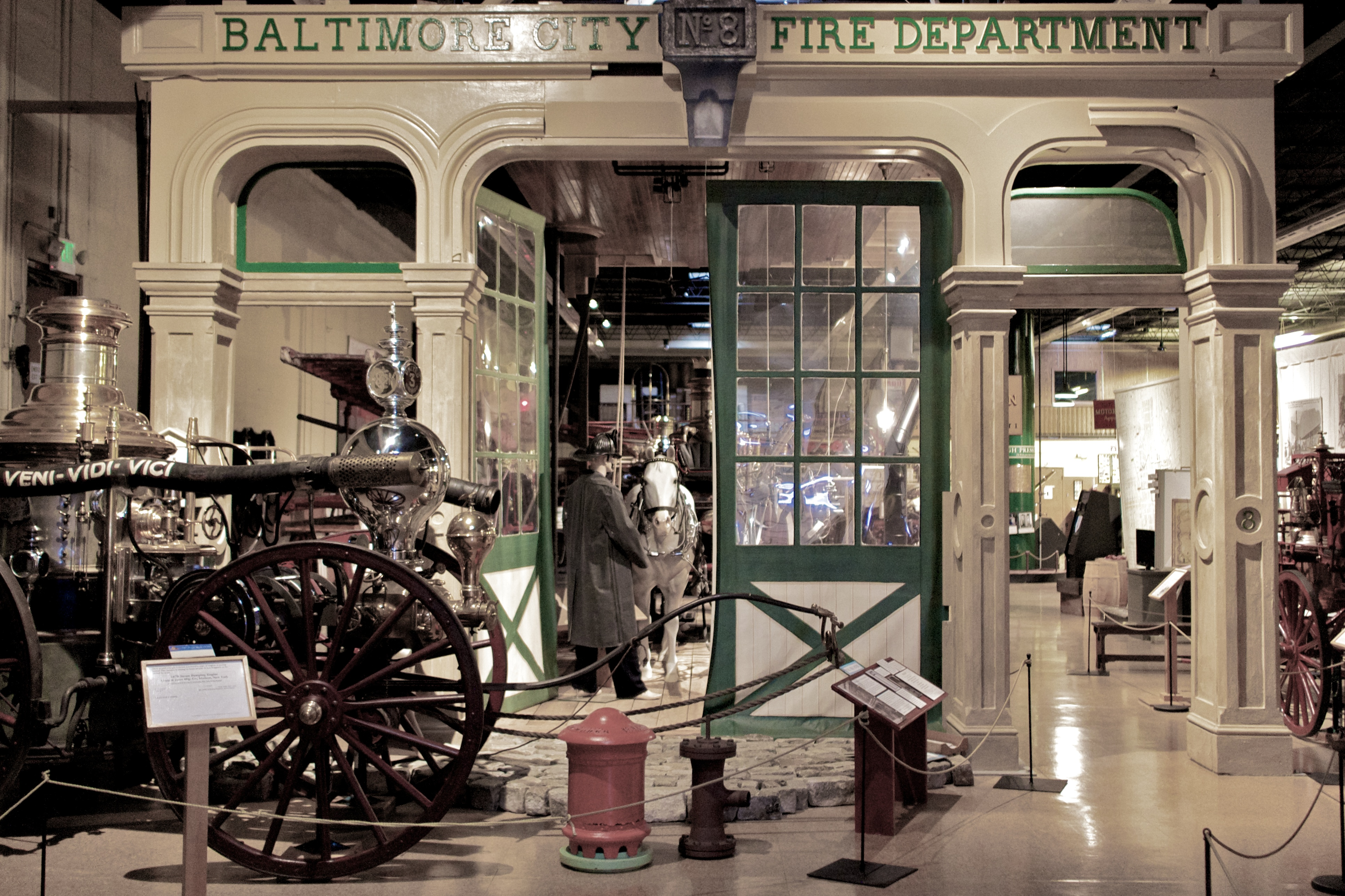 The first floor cast-iron components of the original Baltimore Fire Department Engine House No. 8, as displayed at the Fire Museum of Maryland, in Timonium, Maryland in March 2012.